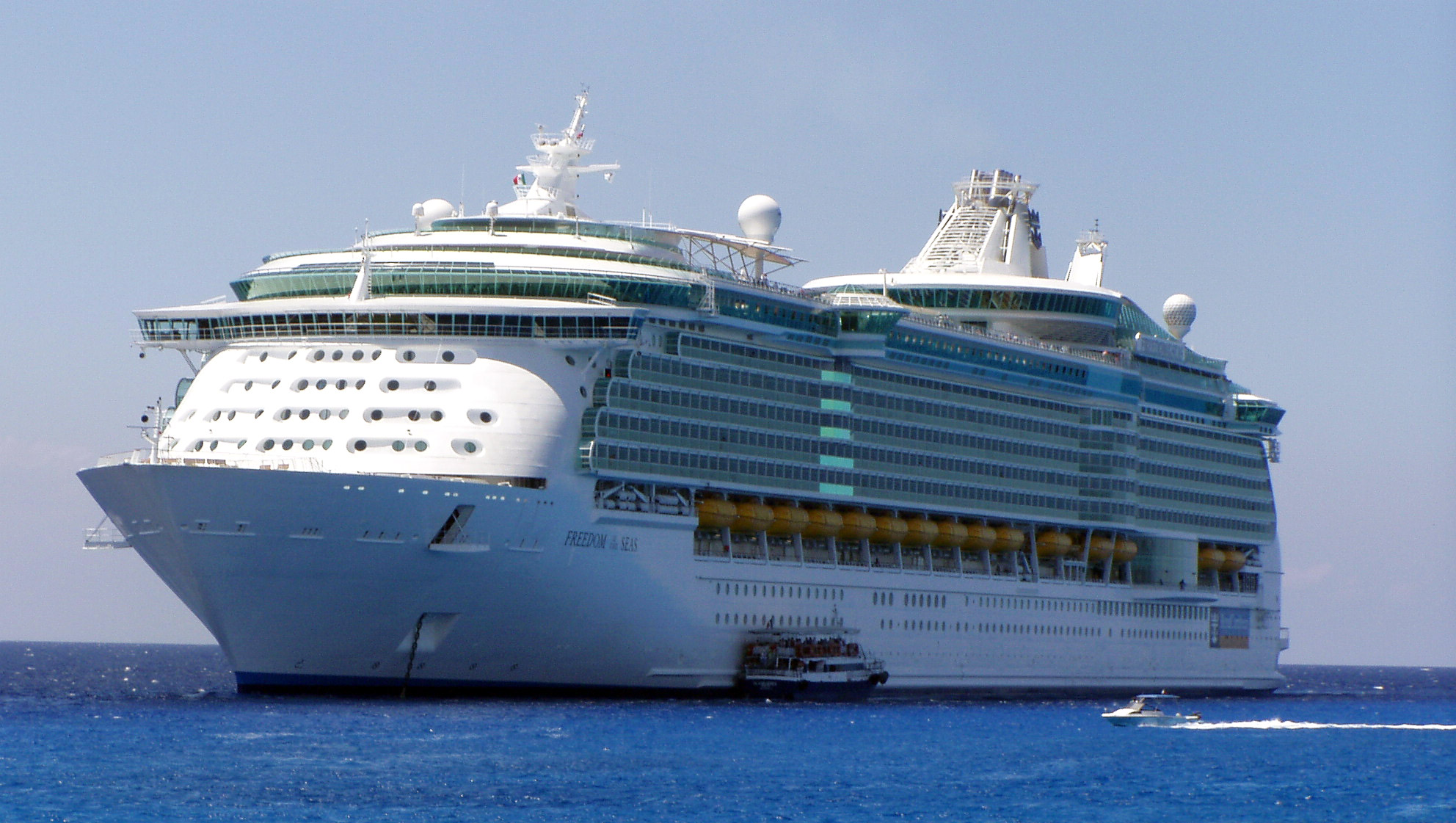 Royal Caribbean's Freedom of the Seas luxury cruise ship.